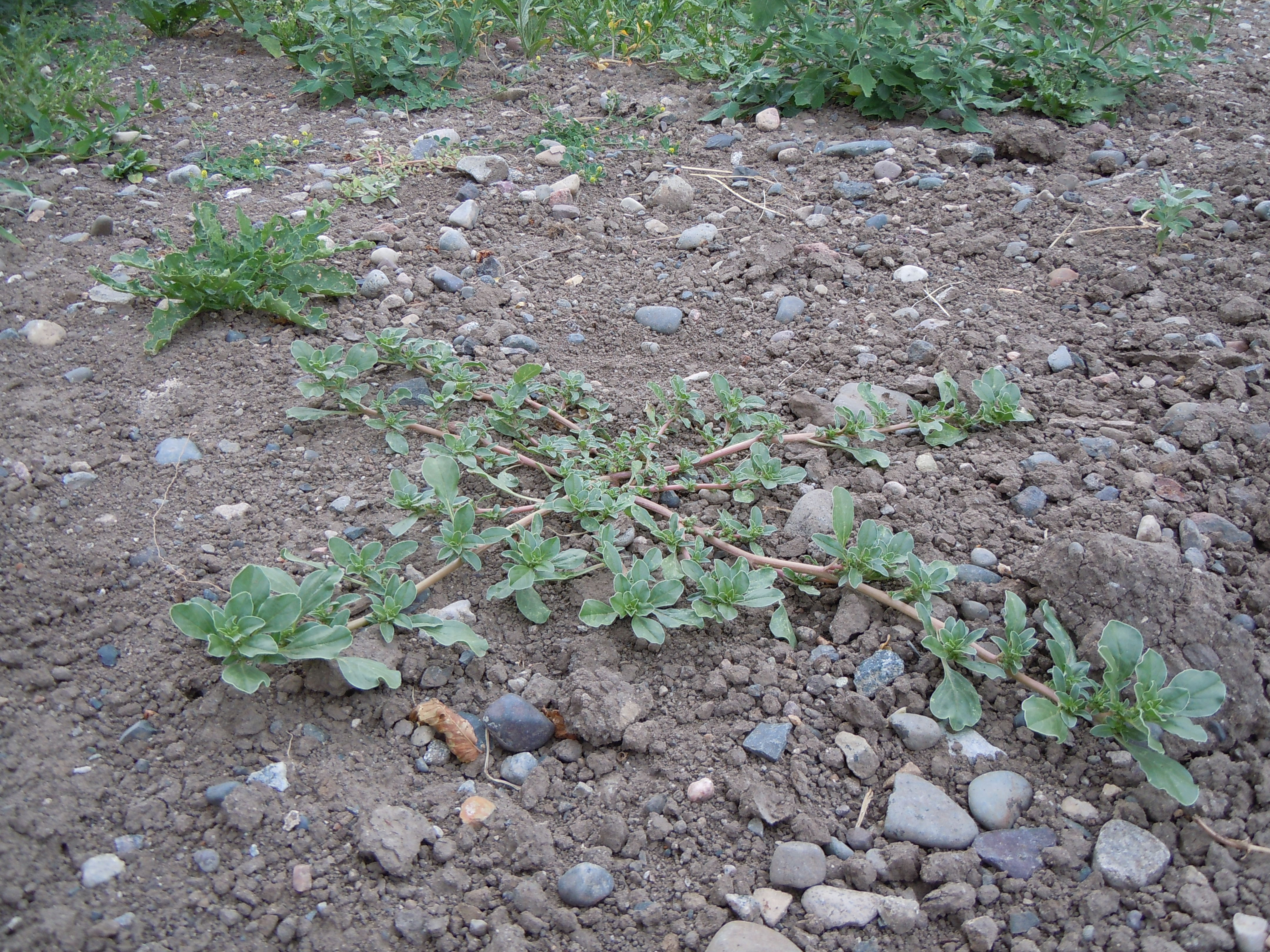 The prostrate habit and relative broad ovate leaves are distinctive of this species and distinguish it from Amaranthus blitoides, which is another often prostrate amaranth in this area.